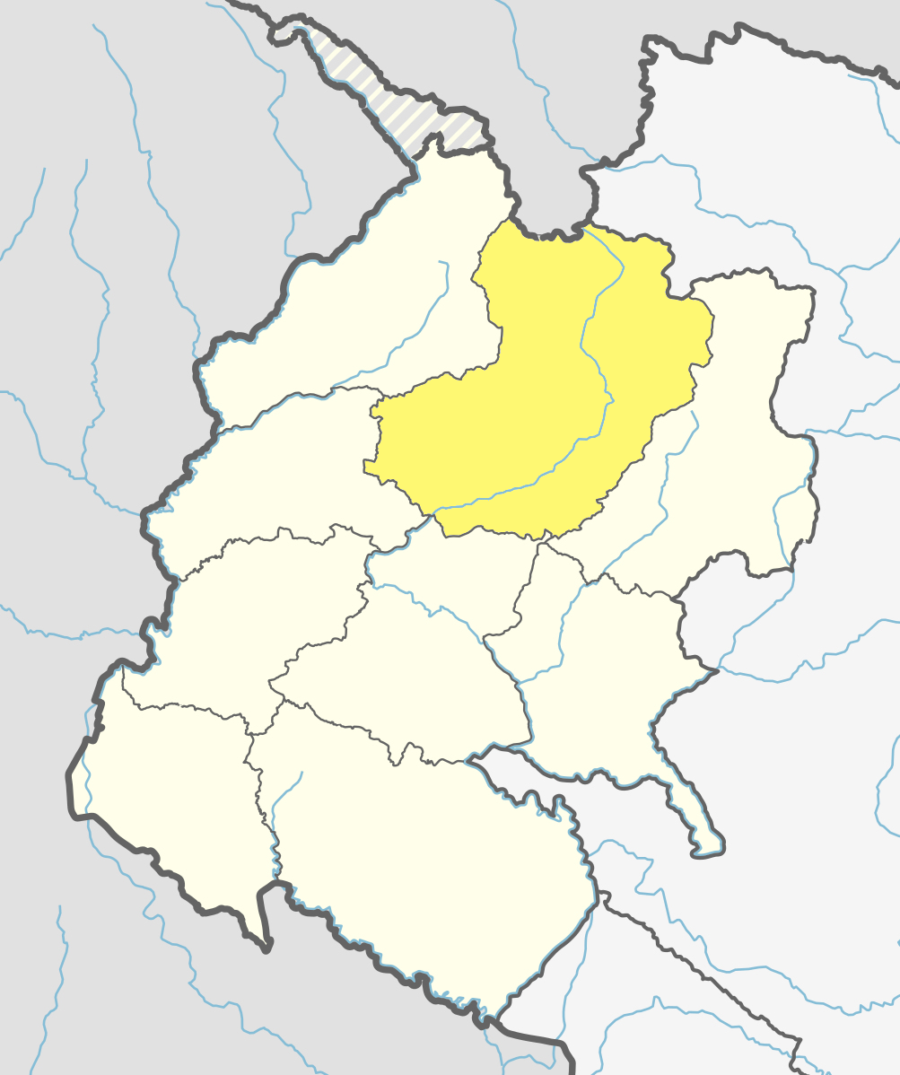 Bajhang District